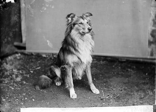 1 negative : glass, dry plate, b&w ; 12 x 16.5 cm.